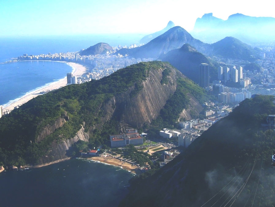 A view of Rio de Janeiro in the direction of Copacabana and Ipanema, from Sugarloaf mountain.